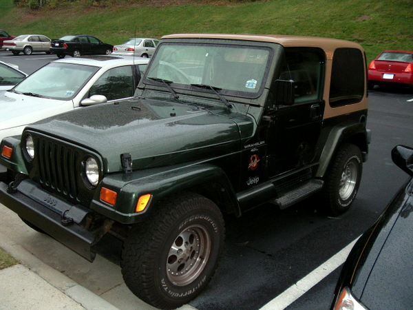 1997 Jeep Wrangler TJ Sahara